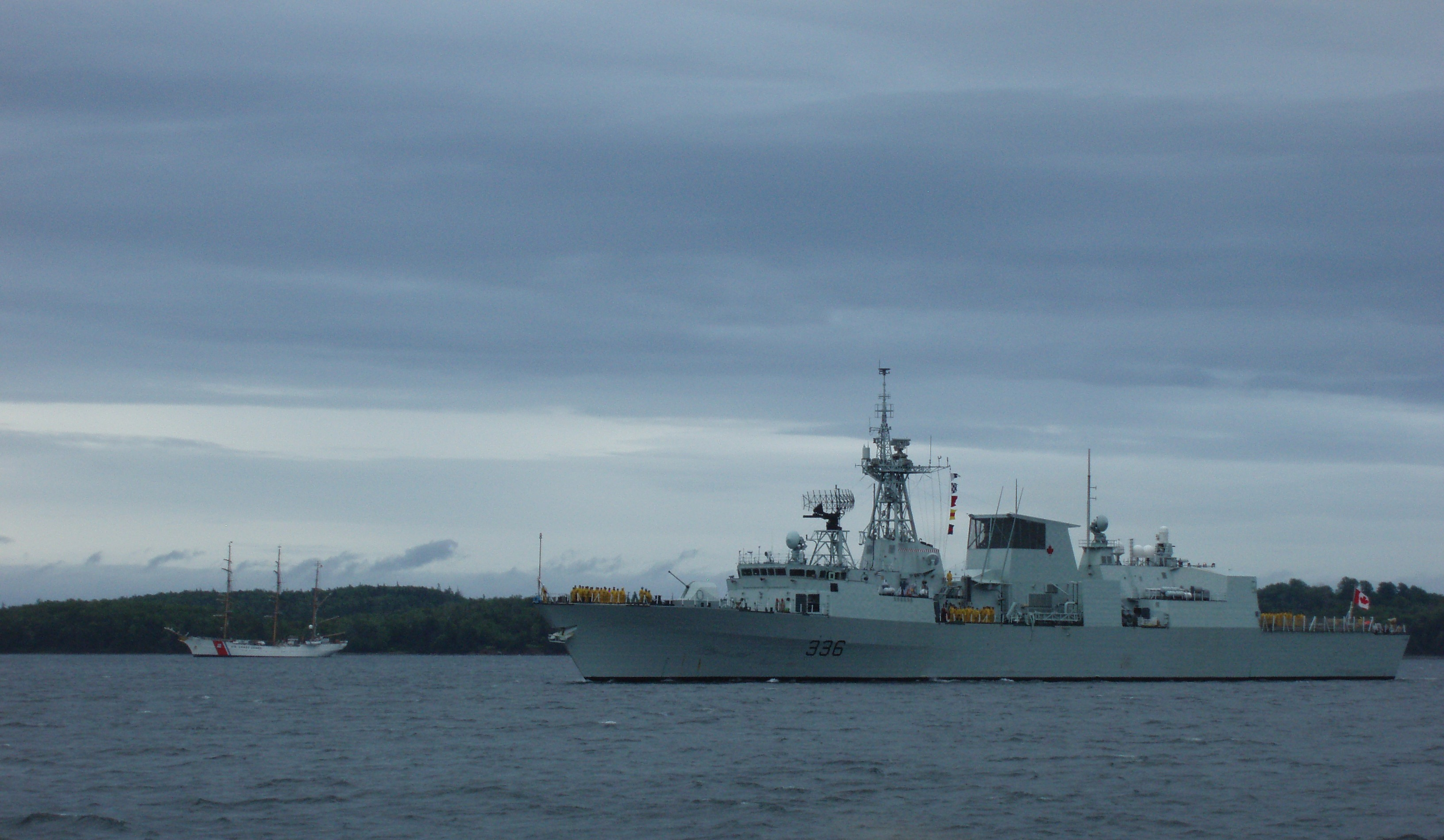 HMCS Montréal comes into view while the U.S. Coast Guard Barque Eagle waits quietly in the background.